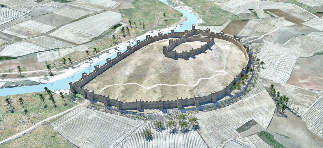 Recreación virtual de la Alcazaba y muralla